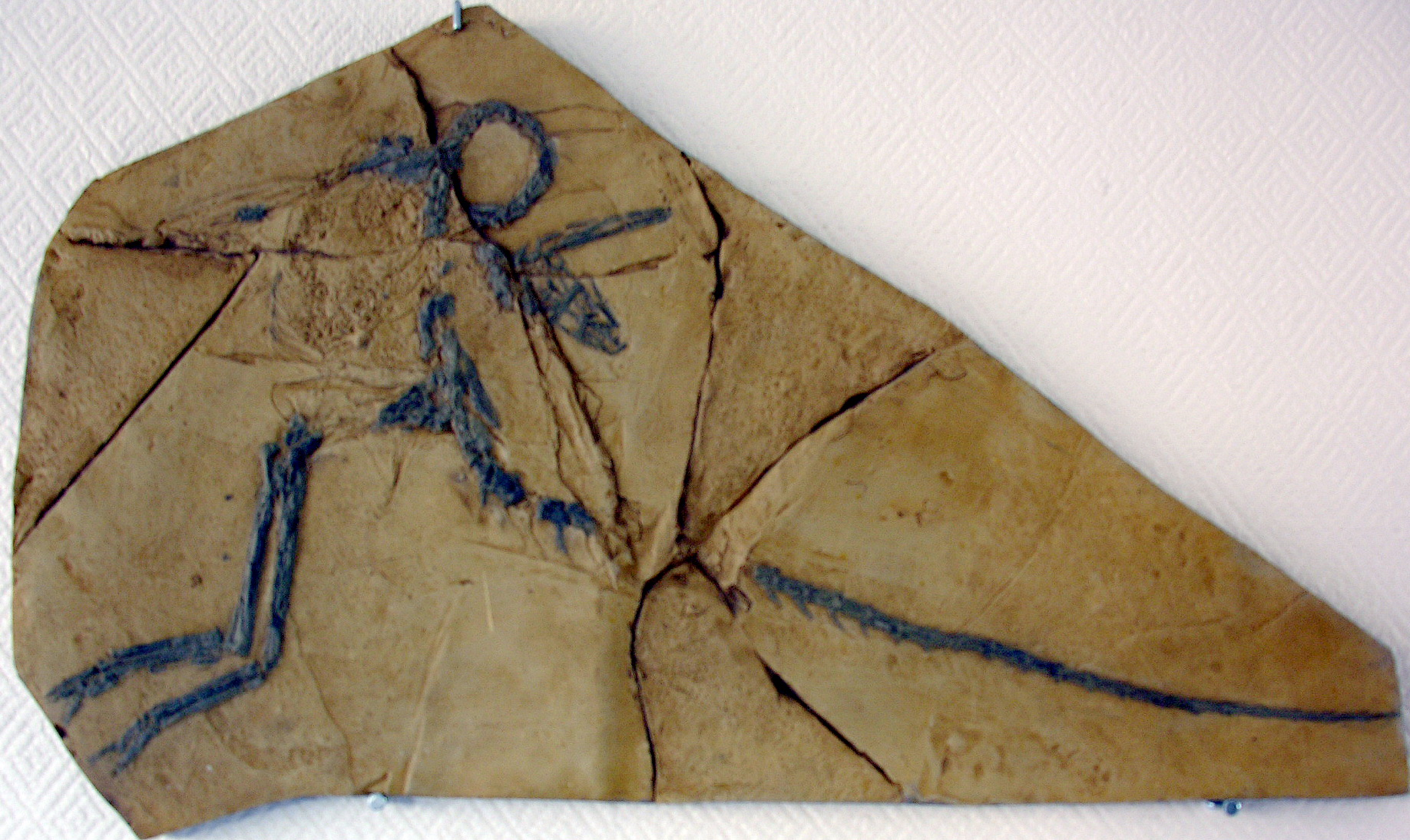 Canjuers military camp : Compsognathus fossil